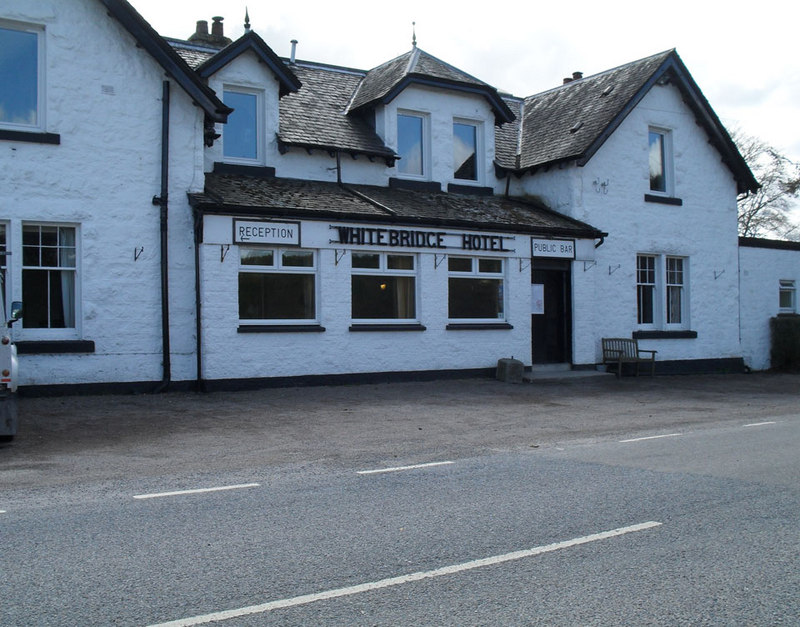 Whitebridge Hotel, near to Whitebridge, Highland, Scotland.